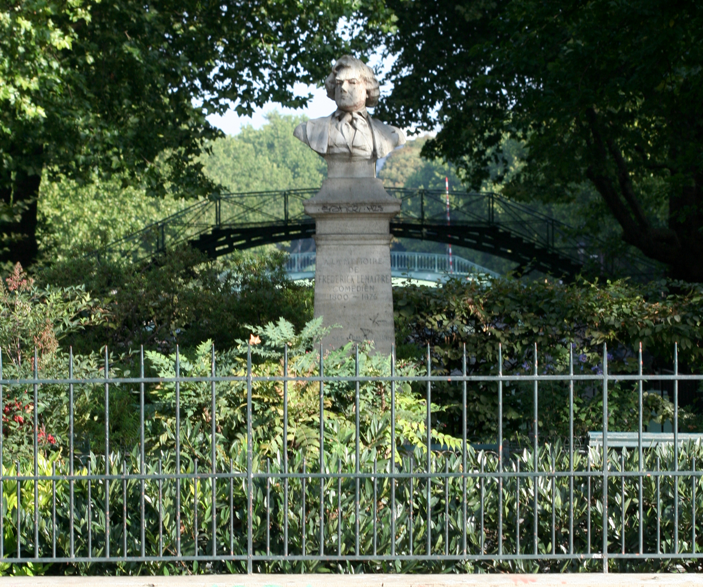 Bust of Frédérick Lemaître by Pierre Granet, 1898, square Frédérick-Lemaître (Paris 10th arrdt), seen from rue du Faubourg-du-Temple.